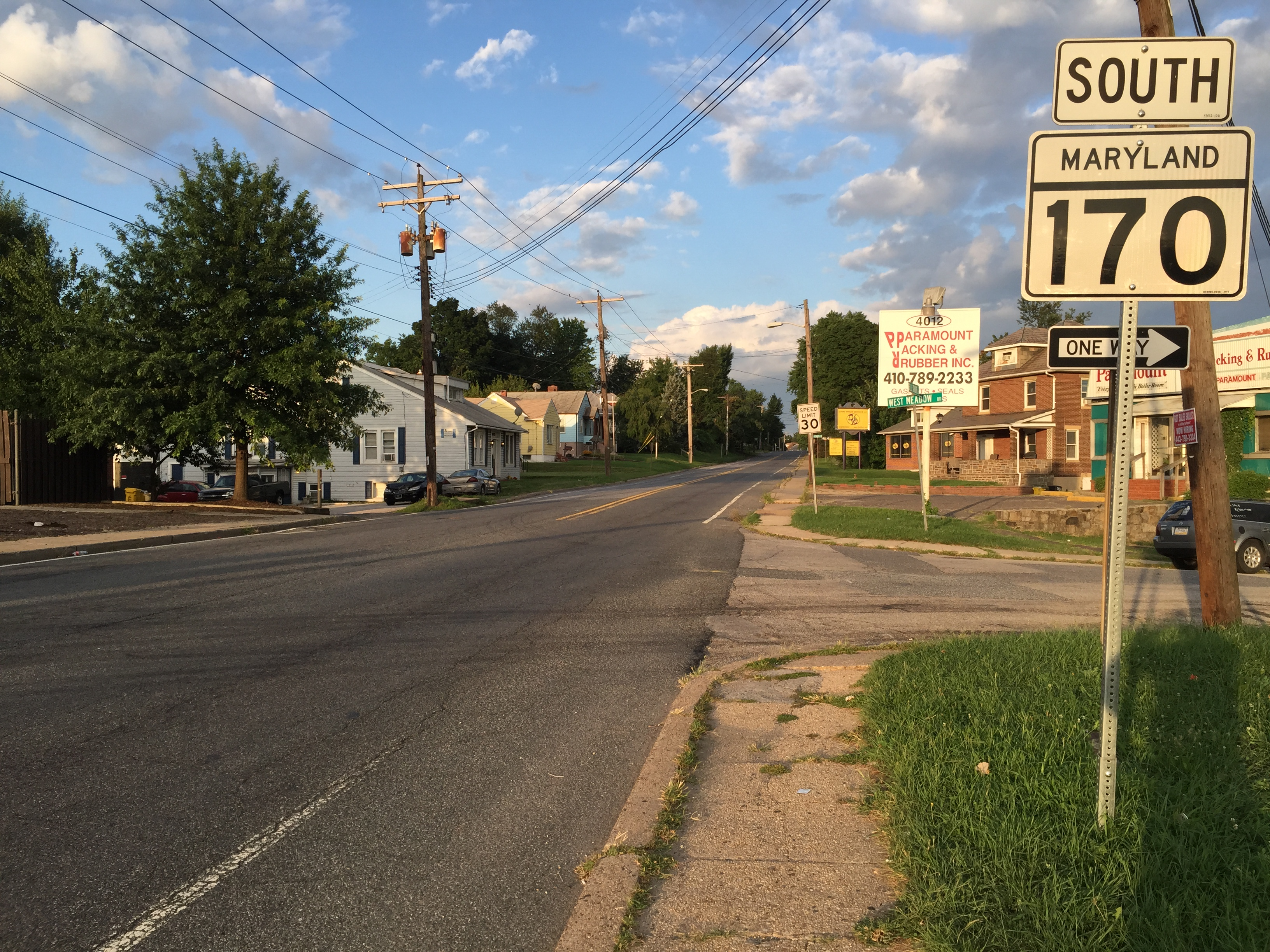 View south along Maryland State Route 170 (Belle Grove Road) at Maryland State Route 2 (Governor Ritchie Highway) in Brooklyn Park, Anne Arundel County, Maryland